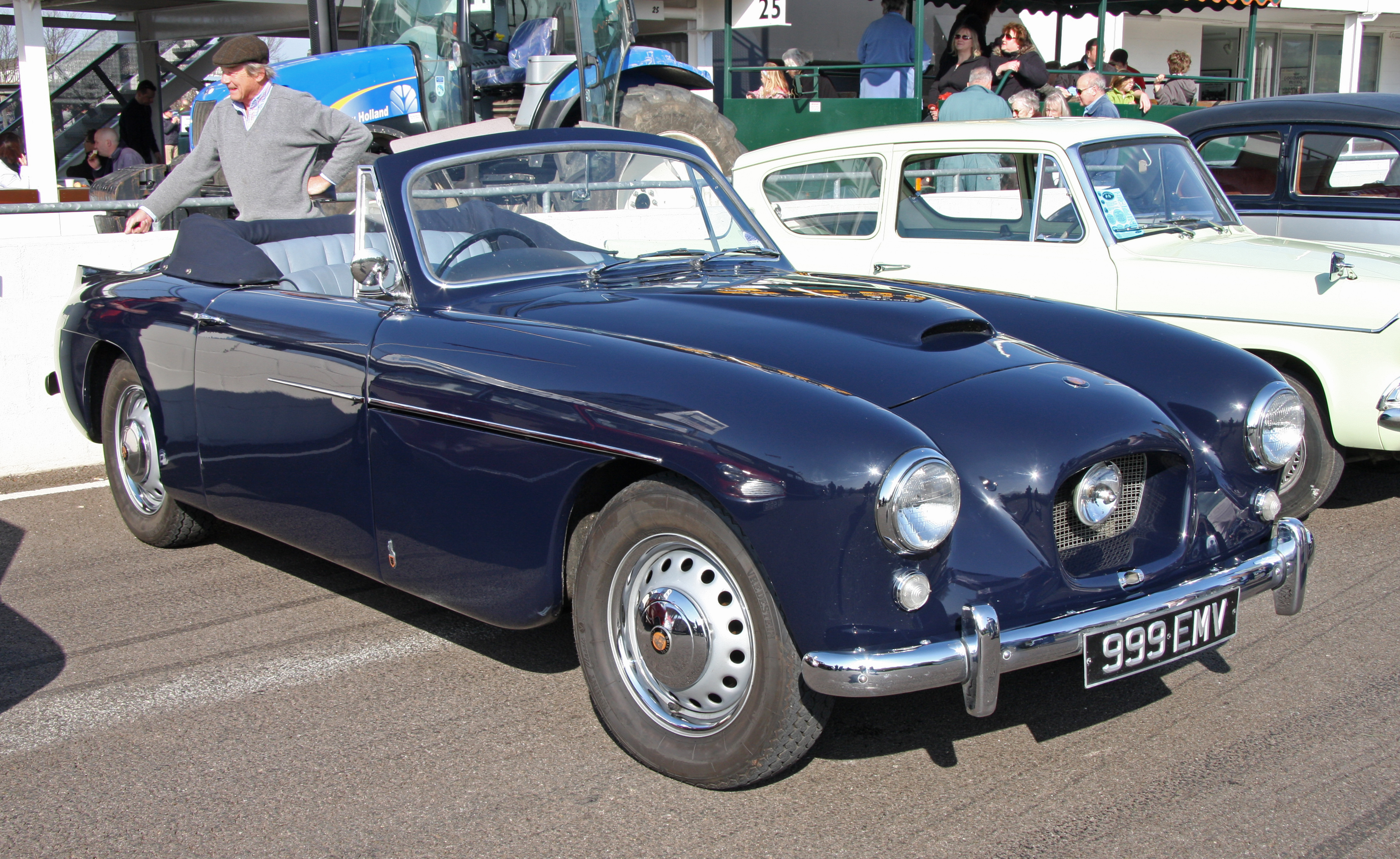 Bristol 405 Drophead